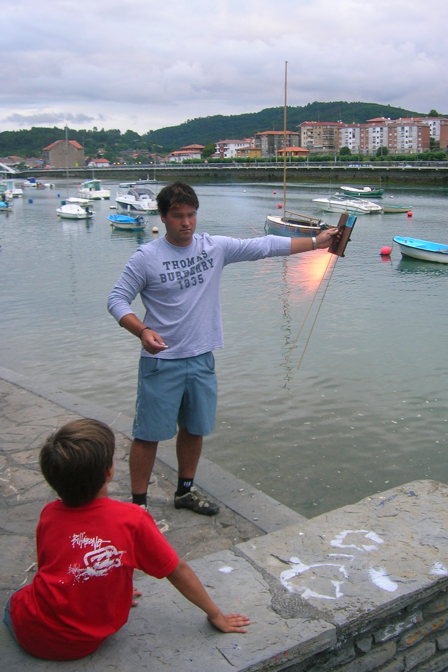 Fireworks during the festivity of El Carmen in Plentzia, 16th of July (holiday of Our Lady of Mount Carmel)